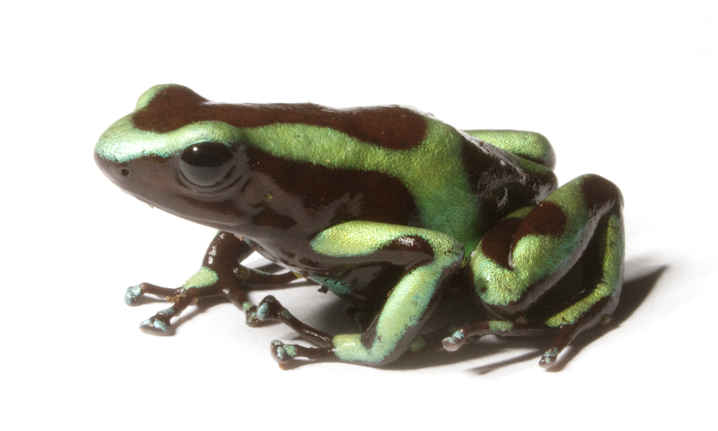 Green and black poison dart frog (Dendrobates auratus) in Panama 2013.